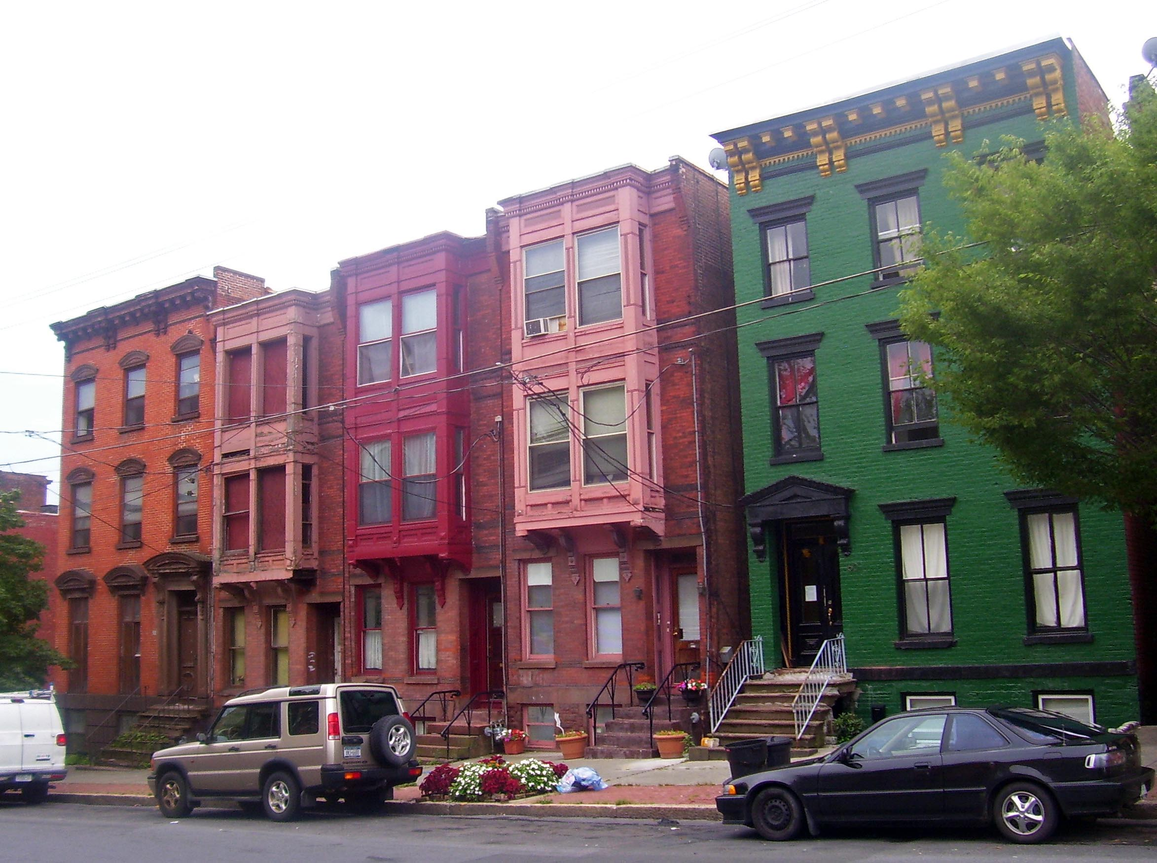 19th-century rowhouses on Clinton Avenue (US 9), Albany, NY, USA